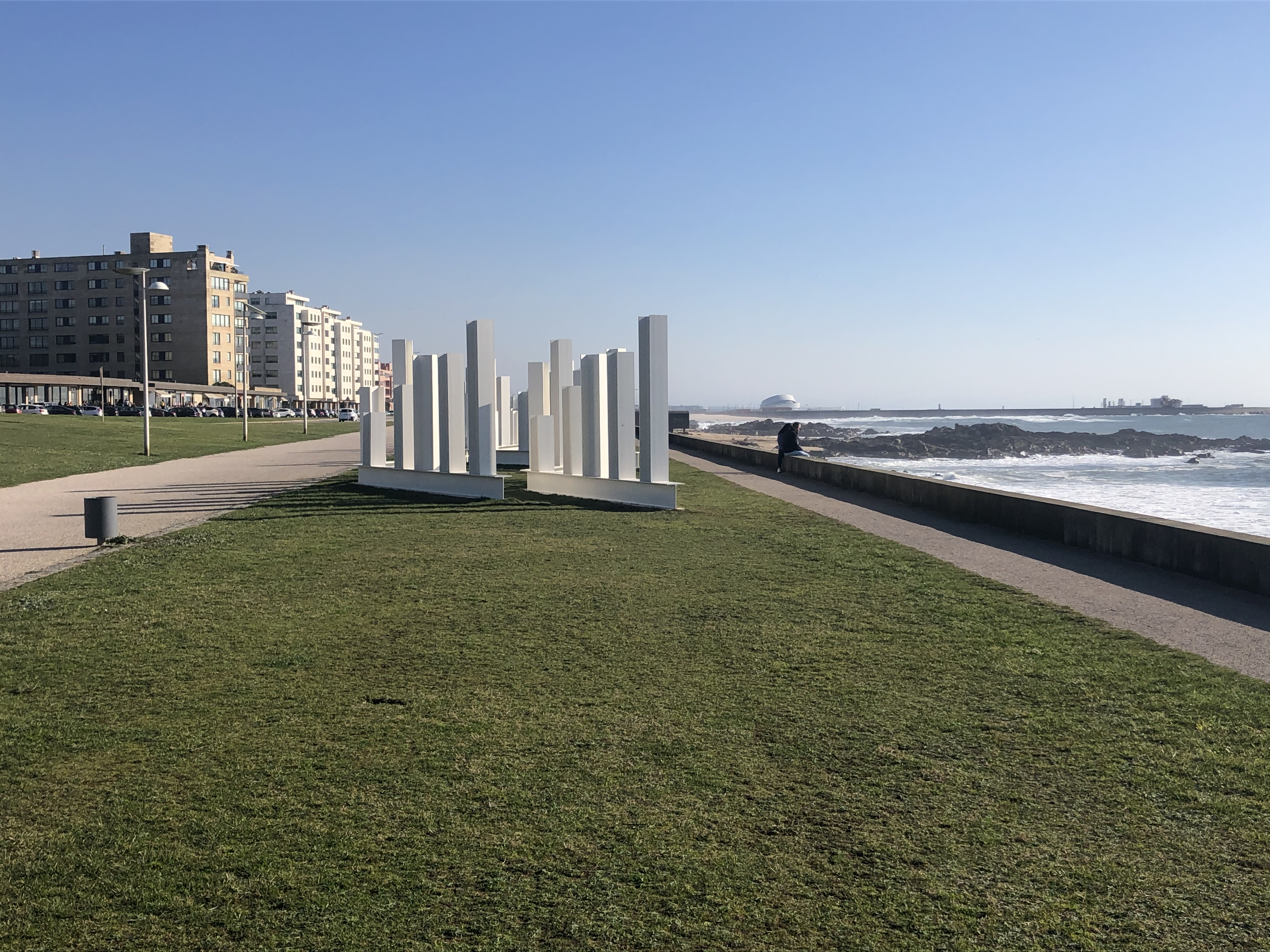 The sea line, sculpture by Pedro Cabrita Reis, January 2020.